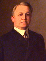 John L. Bates (1859-1946)